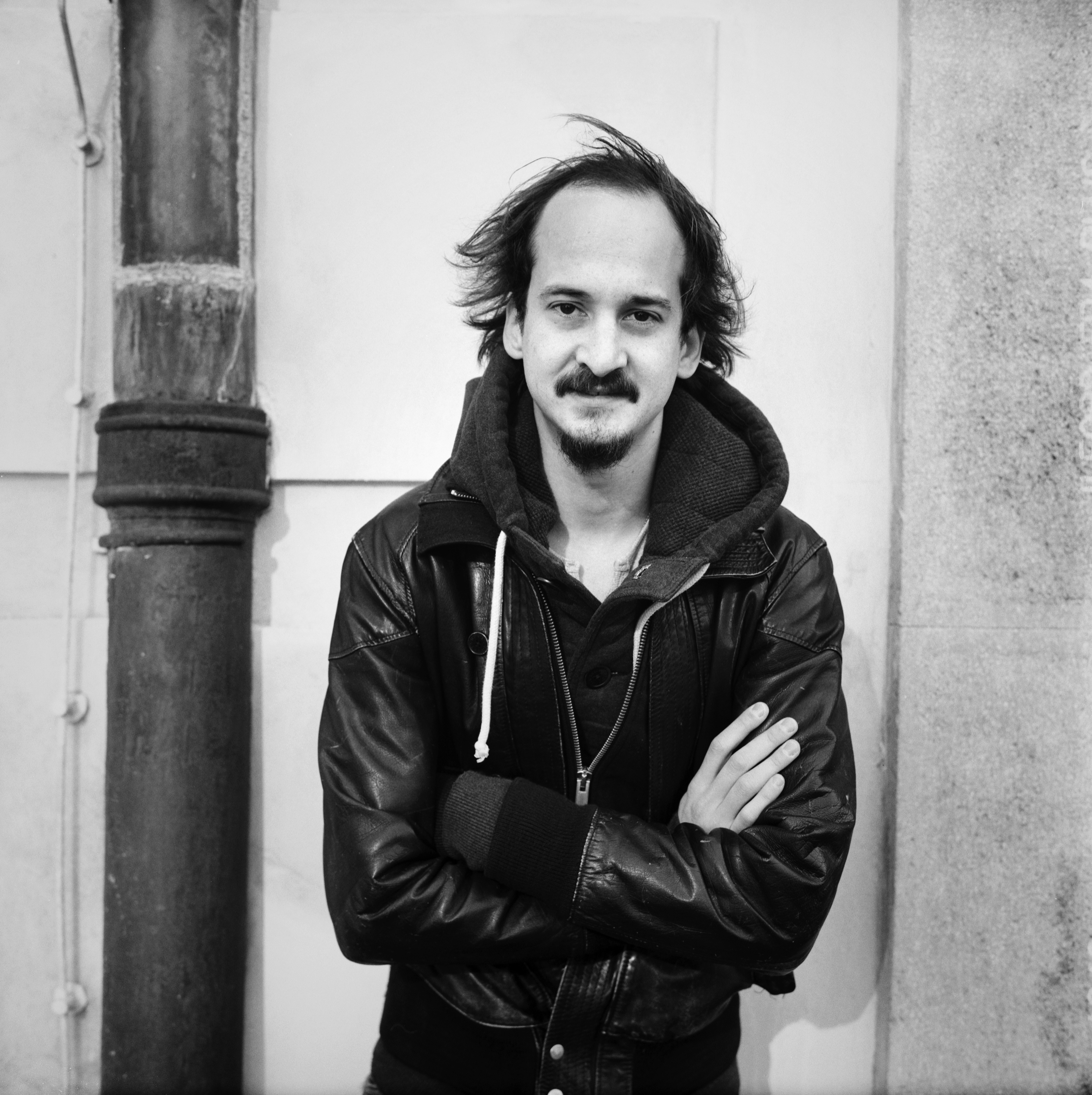 The austrian actor Patrick Seletzky. Photo taken by Severin Koller